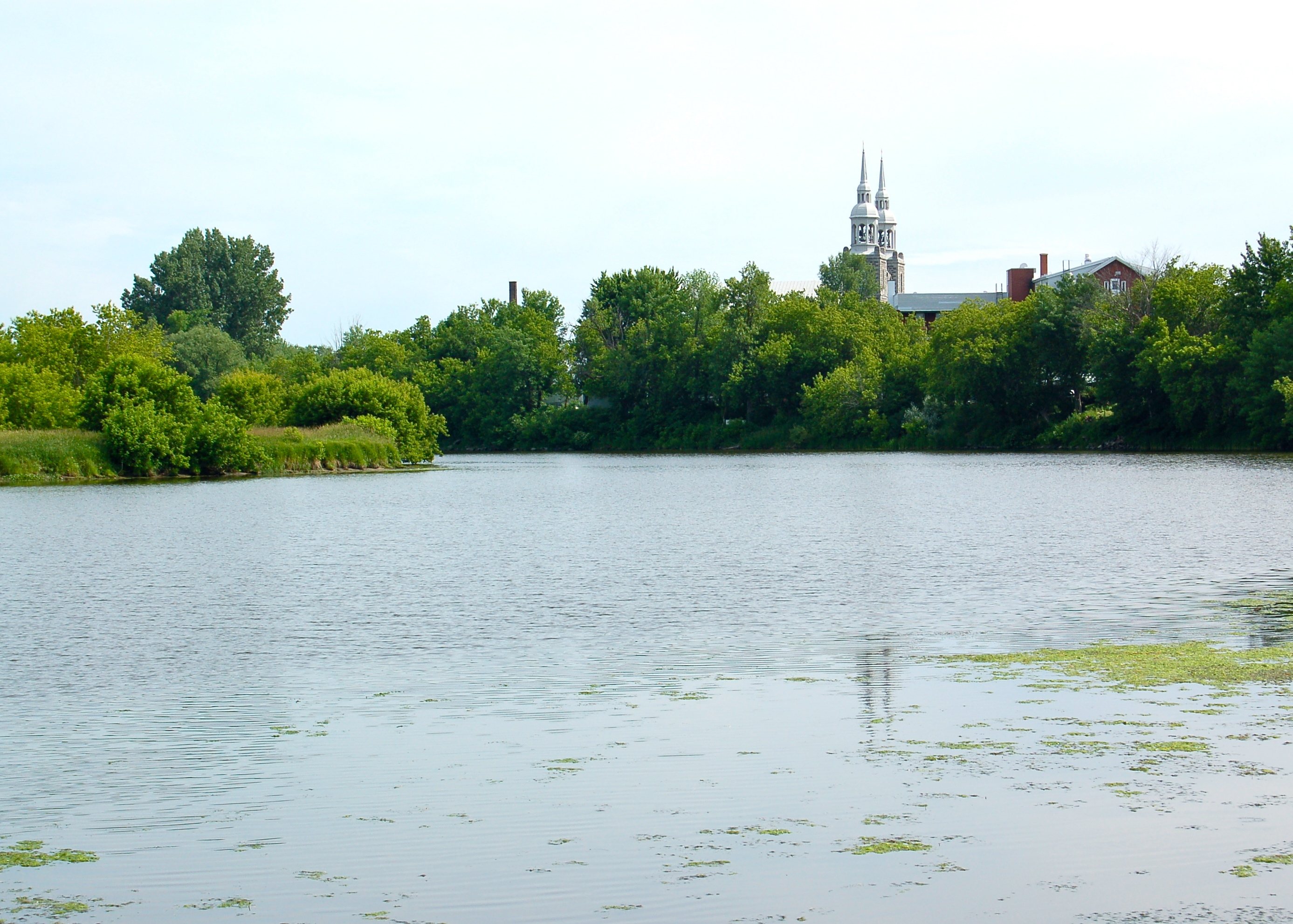 Chateauguay River with Church of the Parish of Ste Martine (founded 1823) in distance.